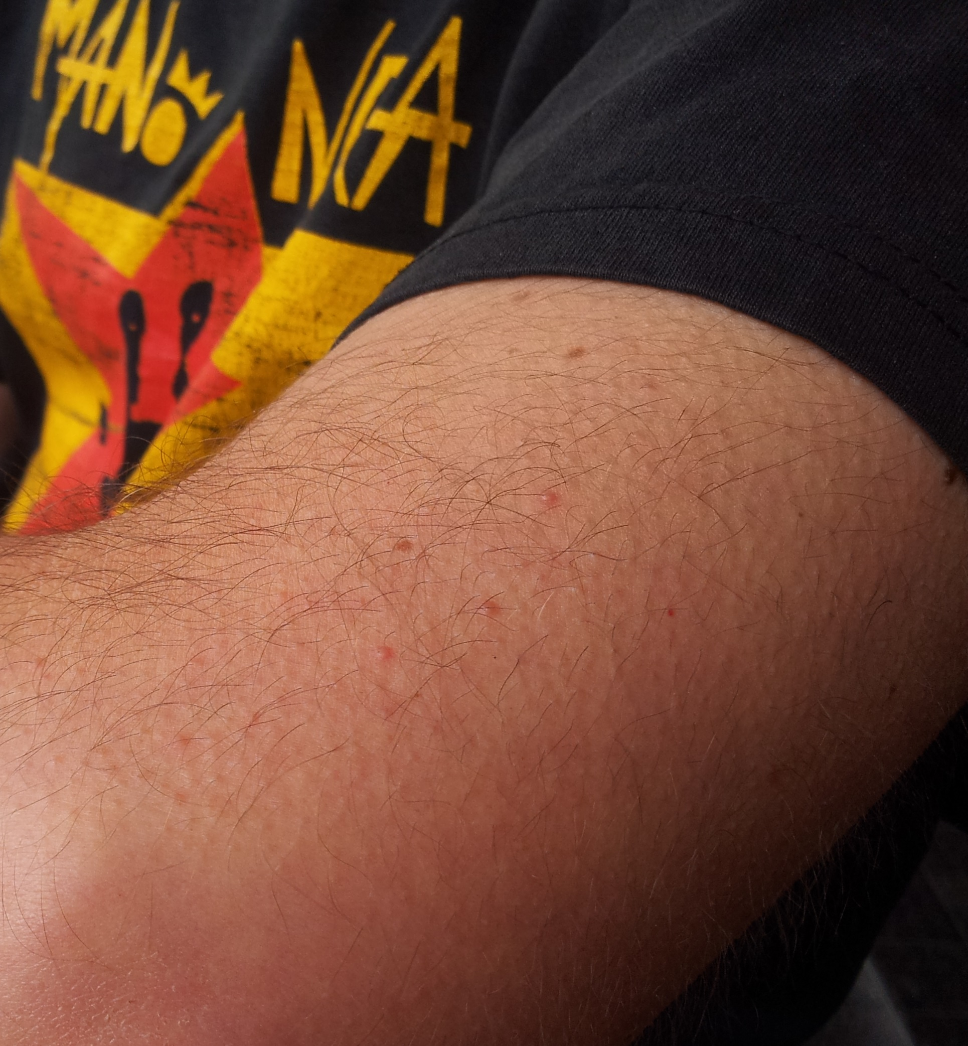 Moderate goose bumps